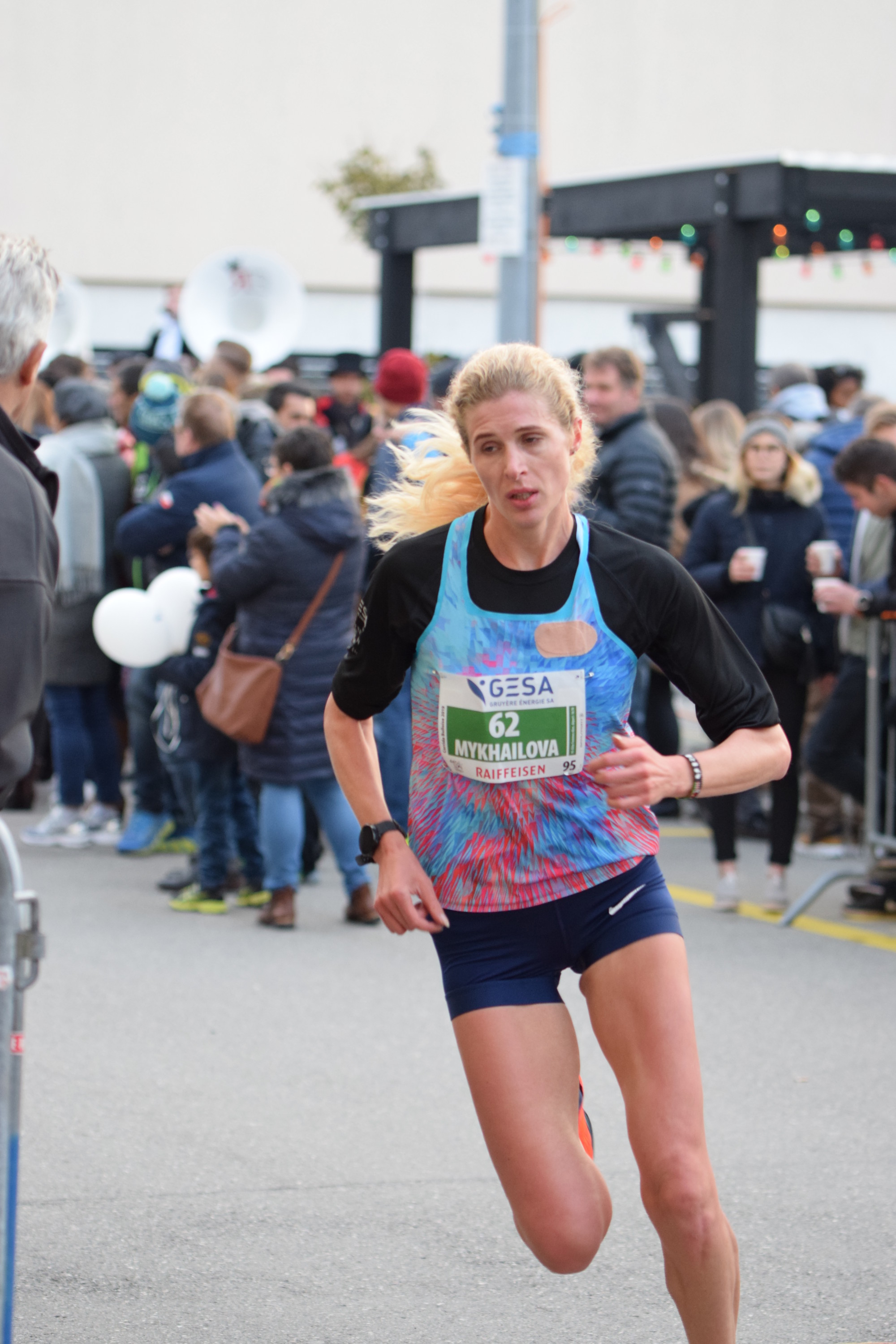 Daria Mykhailova at 2019 Corrida bulloise